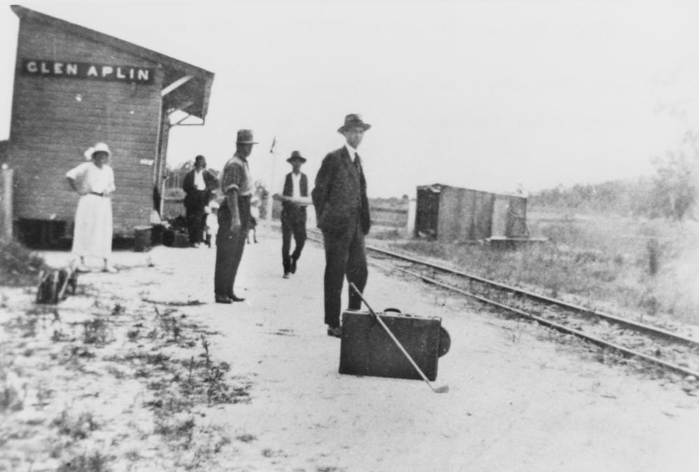 Waiting for the train at Glen Aplin Railway Station, 1920 Passengers waiting for the train, some with luggage. A gentleman is standing at the end of the platform with his suitcase and a golf stick.